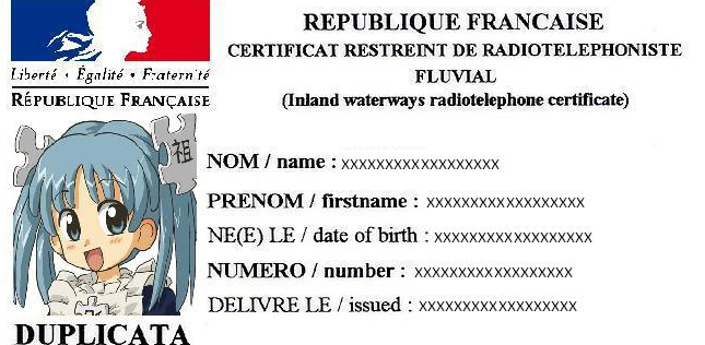 Certificate, VHF Interior water. Rivers, lakes.